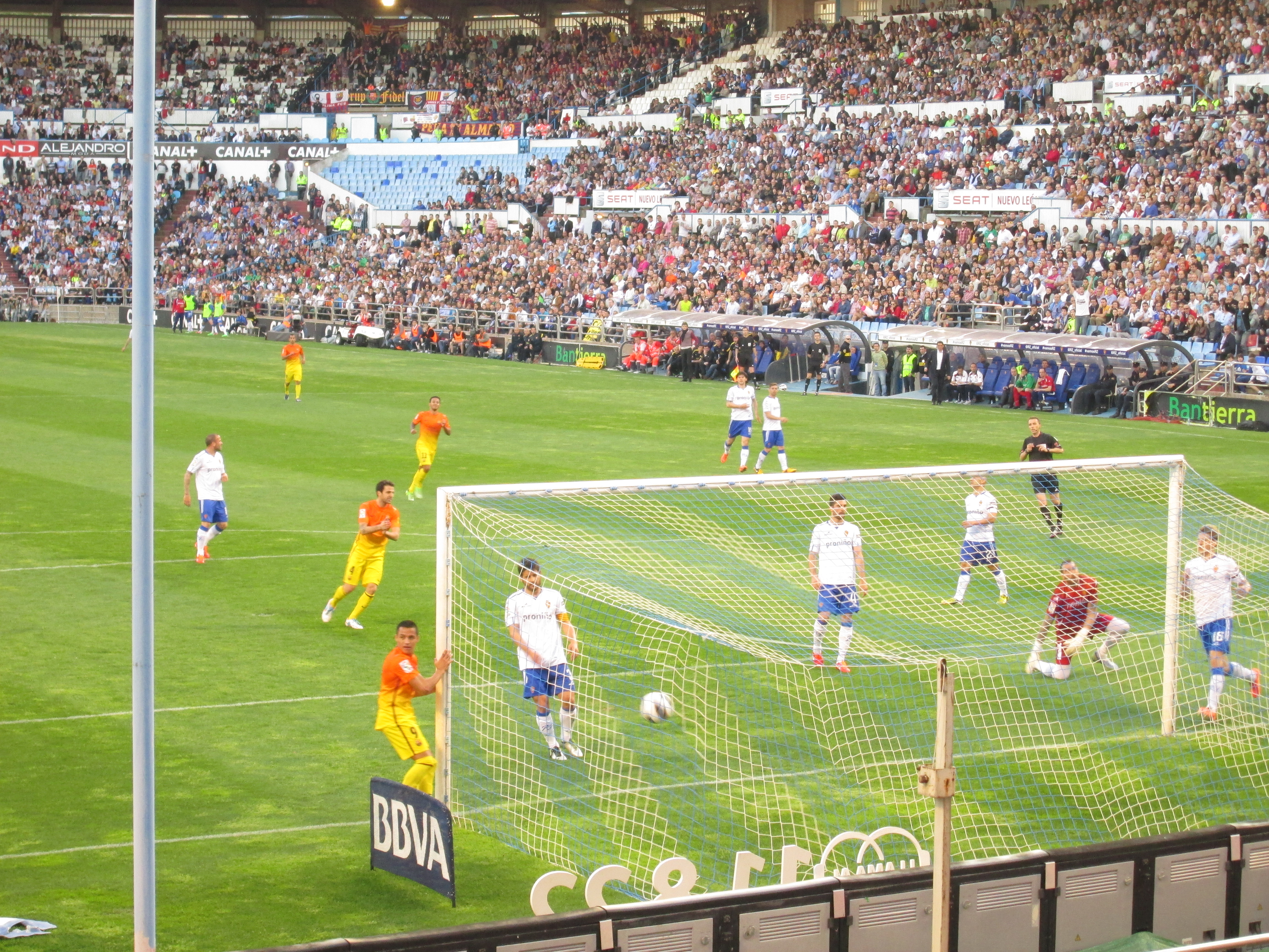 Tercer gol del Barça al Real Zaragoza. Liga 2012-2013. Real Zaragoza FC Barcelona.